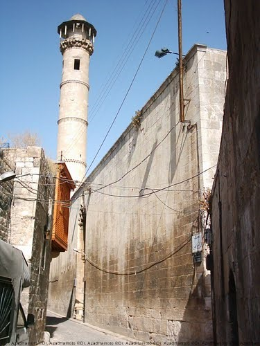 House in Bab Qinnesrin - Aleppo Old City